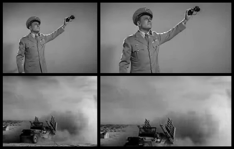 Two adjoining shots from "Plan 9 from Outer Space" (1959) - one being original footage correctly framed at 1.85:1, and the other being World War II stock footage framed in 1.33:1.